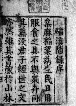 one page of Yu Hyungwon's Bangyesoorok